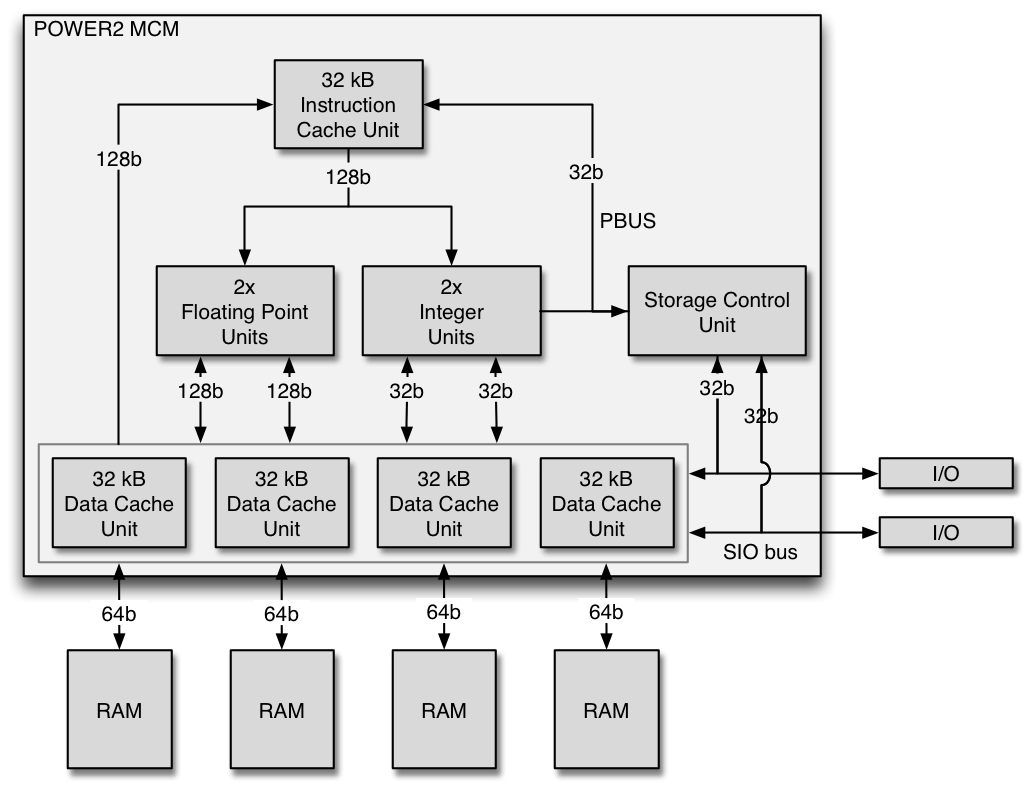 A schematic overview of the MCM of a POWER2 processor.